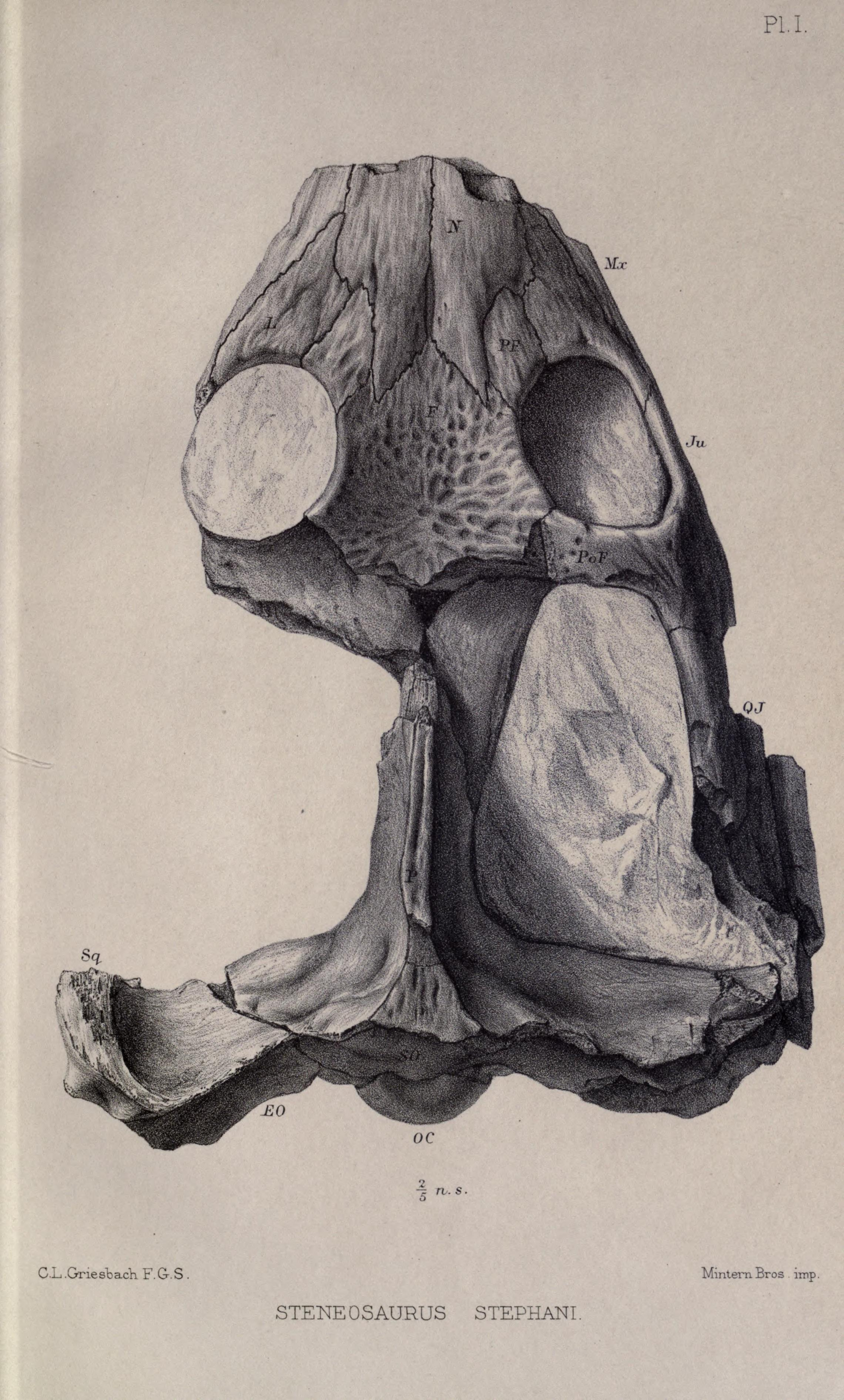 Holotype of the teleosaurid Clovesuurdameredeor stephani (Hulke, 1877) Proceedings.